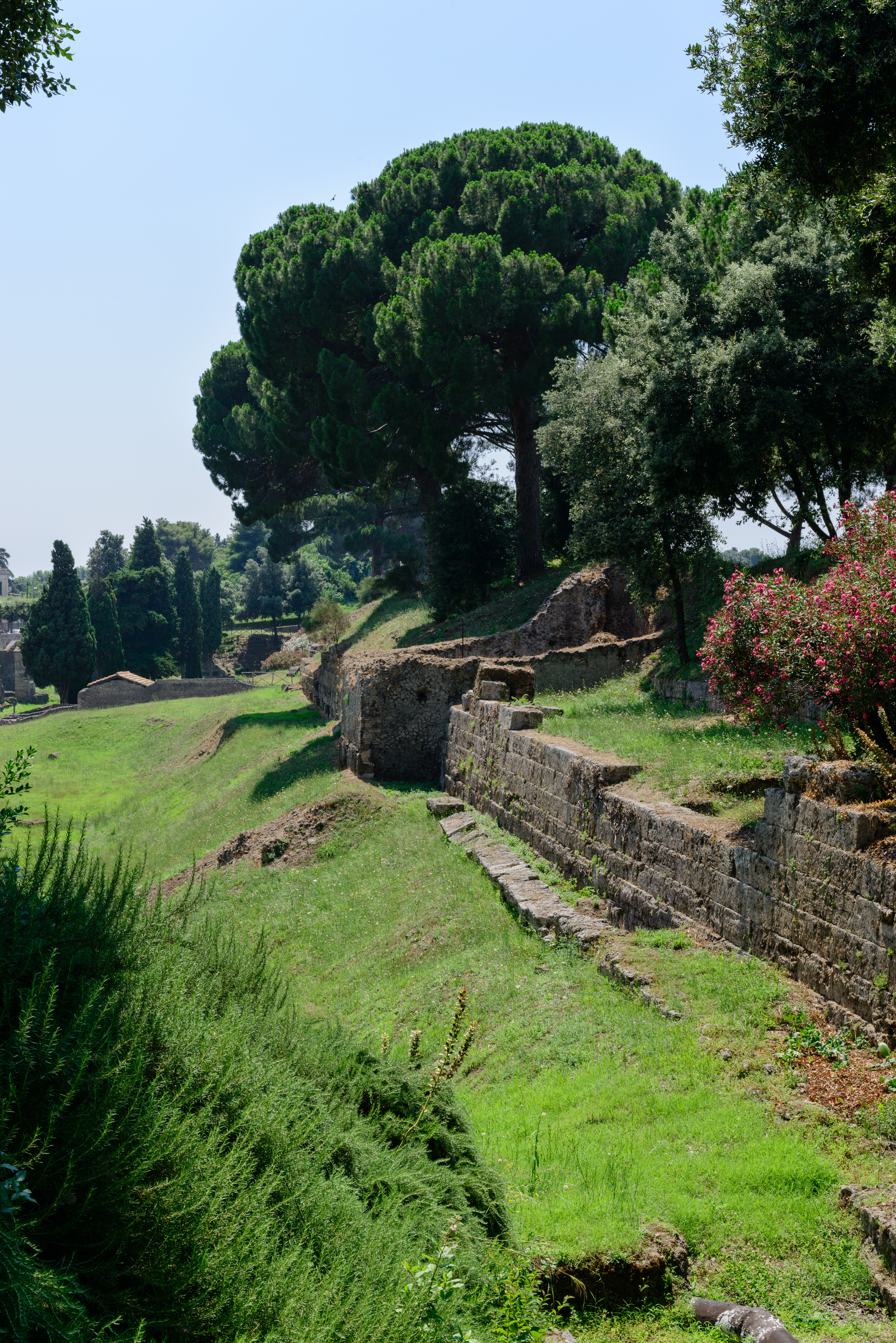 City wall / town wall / surrounding wall, ancient Roman Pompeii, Campania, Italy.